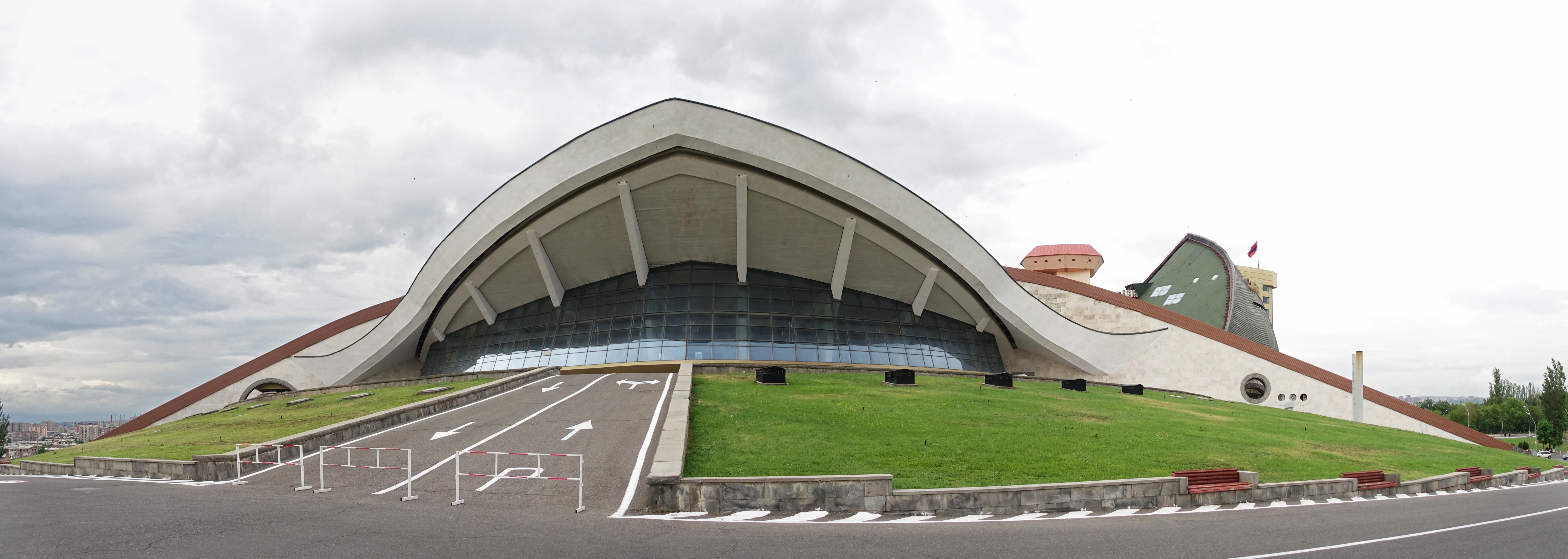 Karen Demirchyan Complex in Yerevan, Armenia.